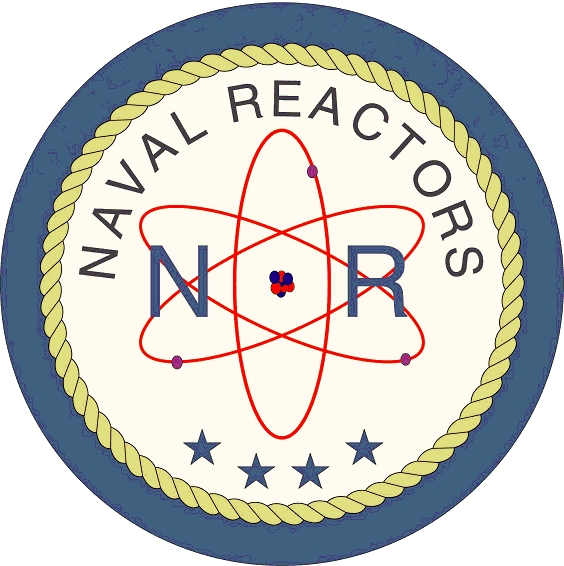 The logo of Naval Reactors